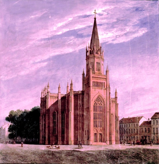 Karl Friedrich Schinkel (13.3.1781 - 9.10.1841) Zeichnung der neuen Altstädtischen Kirche in Königsberg